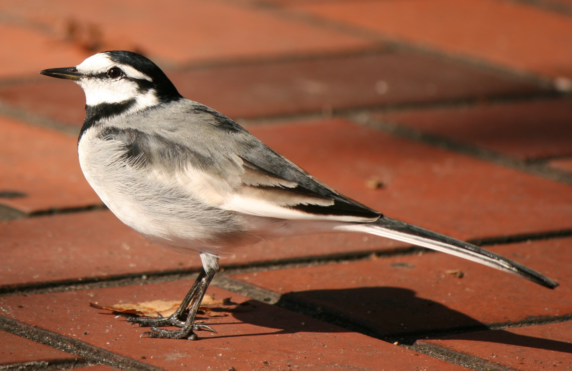 Motacilla alba lugens in Hisaya Ōdori Park, Japan